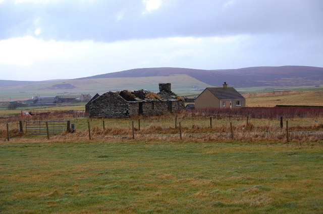 One-for-one? Planning regulations allow you to build a new property on land where there was a dwelling. This is right beside the A986.